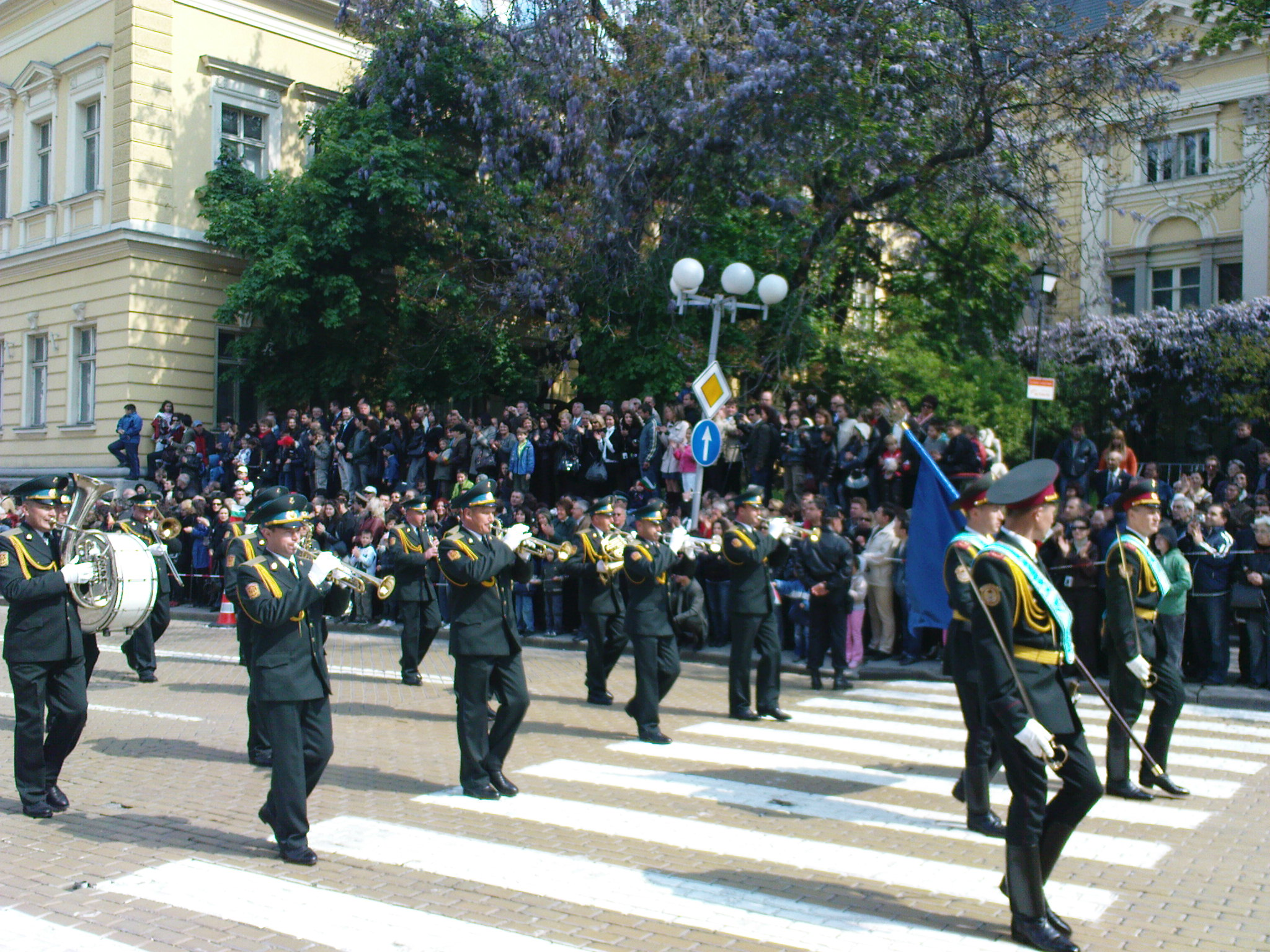 An Ukrainian parading unit on Army day parade in Sofia